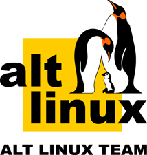 ALT Linux Team logo